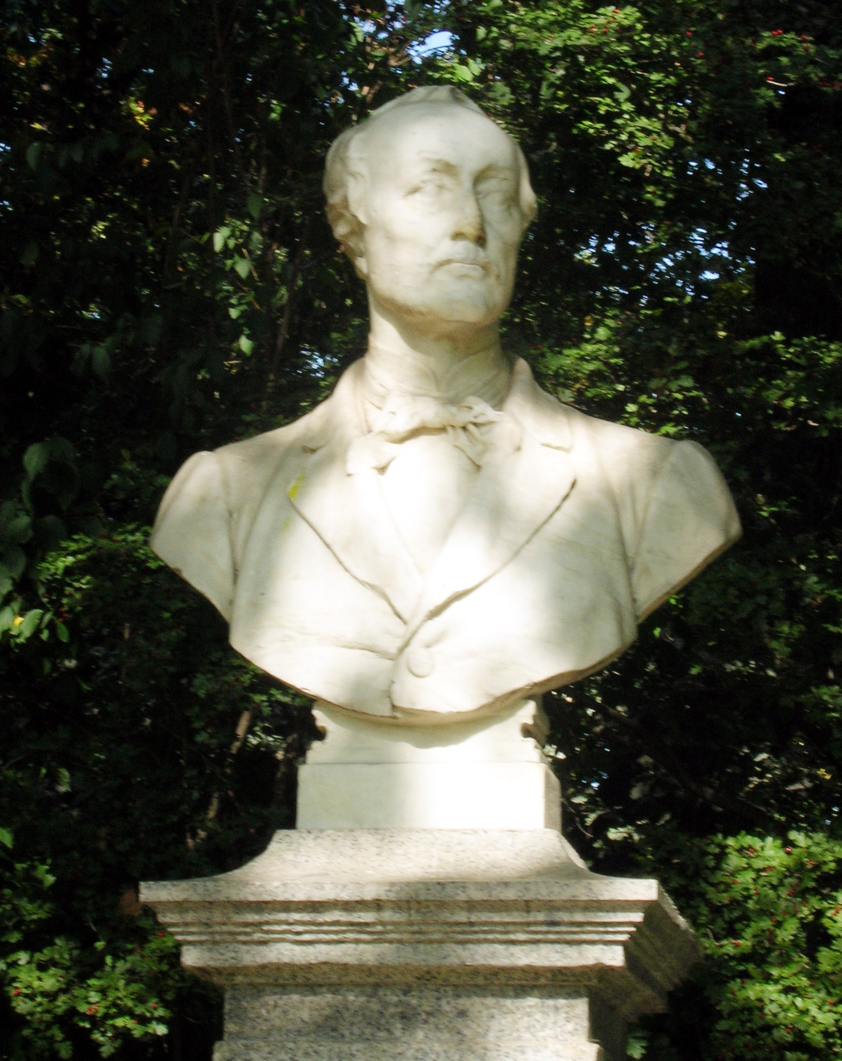 Bust of Wilhelm Theodor Seyfferth at Johannapark in Leipzig